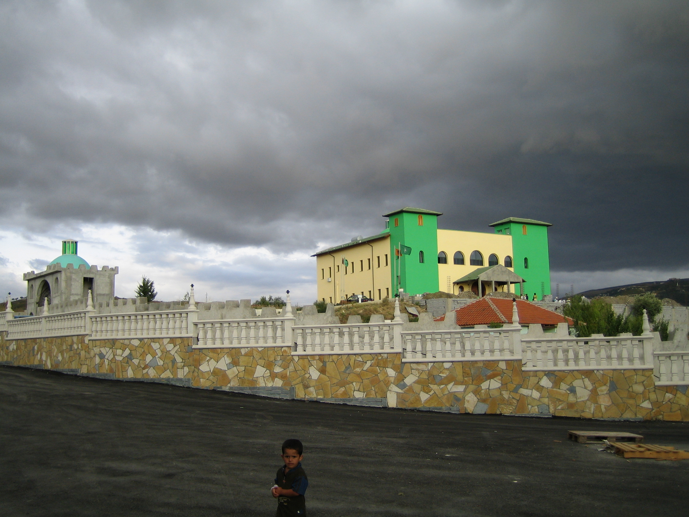 This is a photo of the Bektashi Temple on the Kuz-Baba Hill in vlore Albania, my town of birth. I took this picture during my recent visit to Vlore in August 2005. Kuz-Baba is the patron Saint of the city of Vlore and is revered by all inhabitants both Christian and Bektashi. (Christians refer to the place as Saint Kozma, after a pre-Ottoman period Christian saint, although there are others who maintain that a pagan temple and god worship on the site existed even before Christian times ) Copyright Ervin Ruci